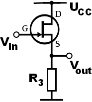 N-JFET-folower